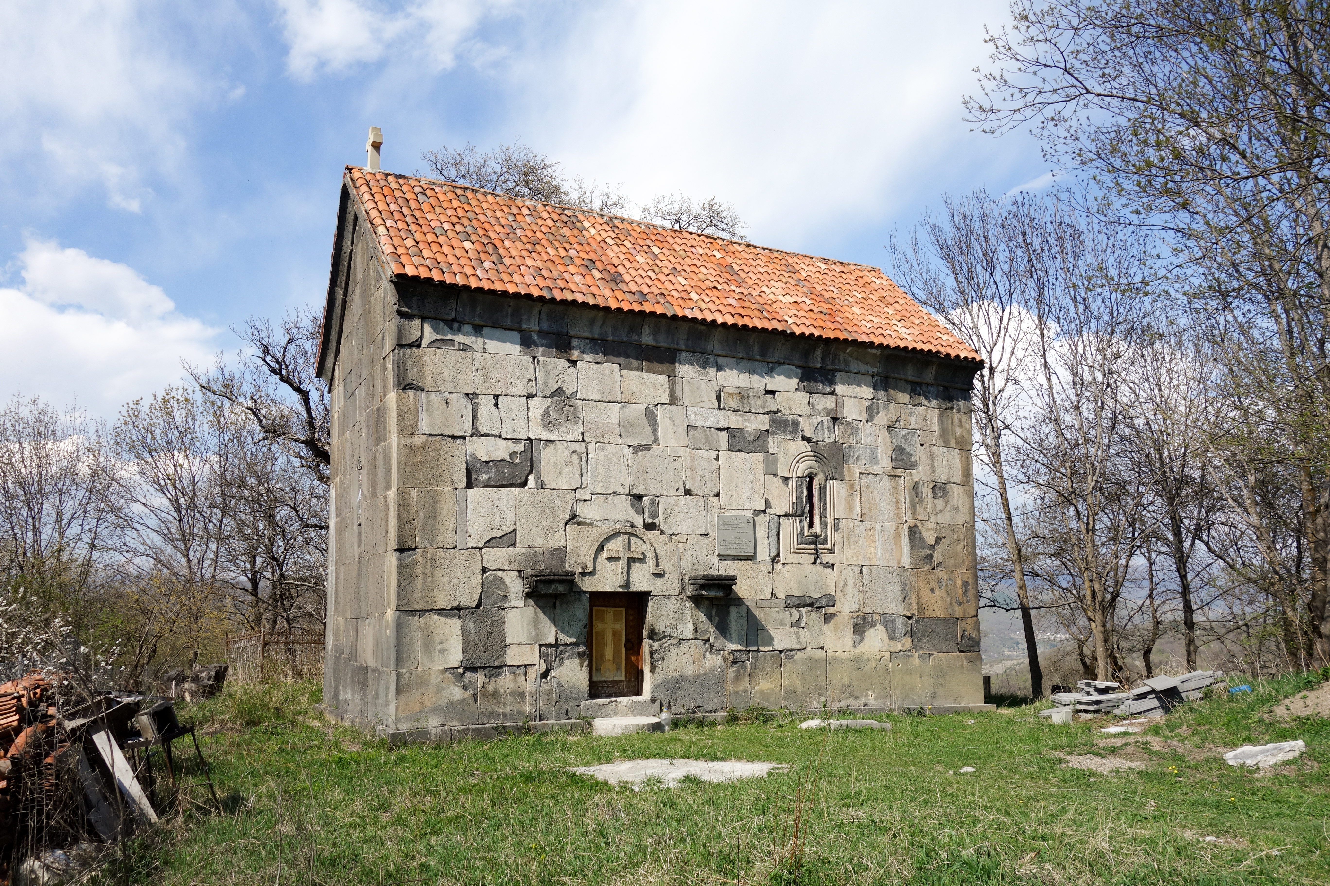 Abelia Church (XIII c.), Abeliani, Kvemo Kartli, Georgia